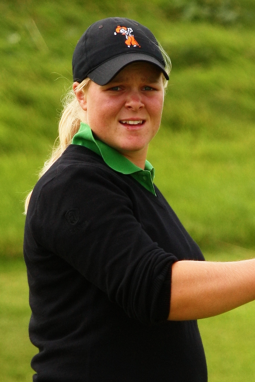 SOUTHPORT, UNITED KINGDOM - JULY 28: Caroline Hedwall of Sweden on the green of the 8th hole during third practice round before 2010 Ricoh Women's British Open held at Royal Birkdale on July 28, 2010 in Southport, England. (Photo by Wojciech Migda)